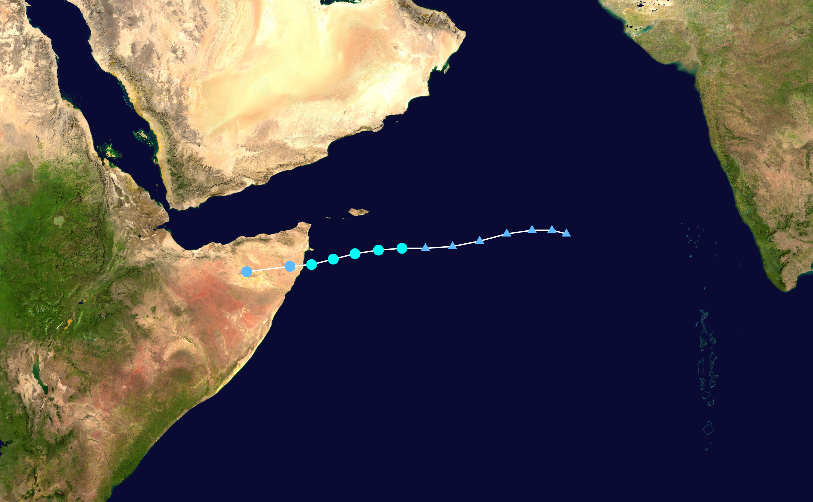 Track map of Cyclonic Storm Murjan of the 2012 North Indian Ocean cyclone season. The points show the location of the storm at 6-hour intervals. The colour represents the storm's maximum sustained wind speeds as classified in the Saffir–Simpson scale (see below), and the shape of the data points represent the nature of the storm, according to the legend below. Saffir–Simpson scale Tropical depression≤38 mph≤62 km/h Category 3111–129 mph178–208 km/h Tropical storm39–73 mph63–118 km/h Category 4130–156 mph209–251 km/h Category 174–95 mph119–153 km/h Category 5≥157 mph≥252 km/h Category 296–110 mph154–177 km/h Unknown Storm type Tropical cyclone Subtropical cyclone Extratropical cyclone / Remnant low / Tropical disturbance / Monsoon depression